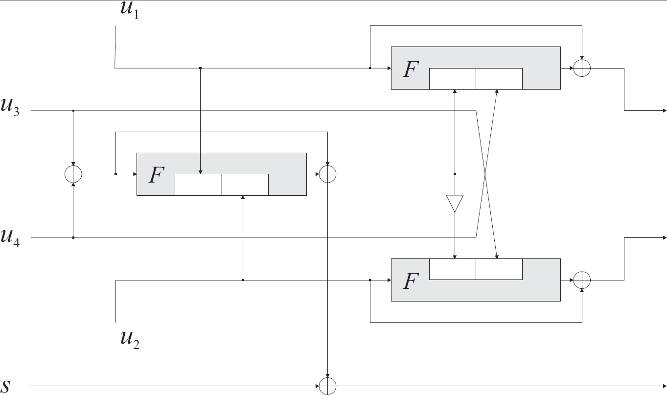 Схема одной итерации алгоритма хэширования